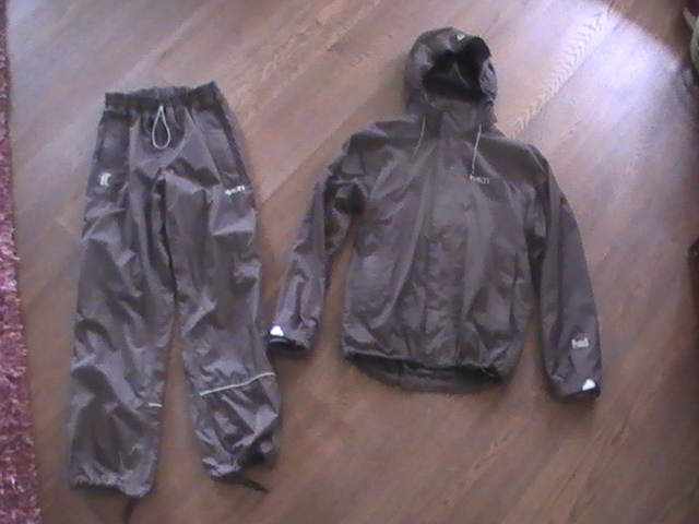 Halti's windbreak jacket and pants, photographed at indoor.